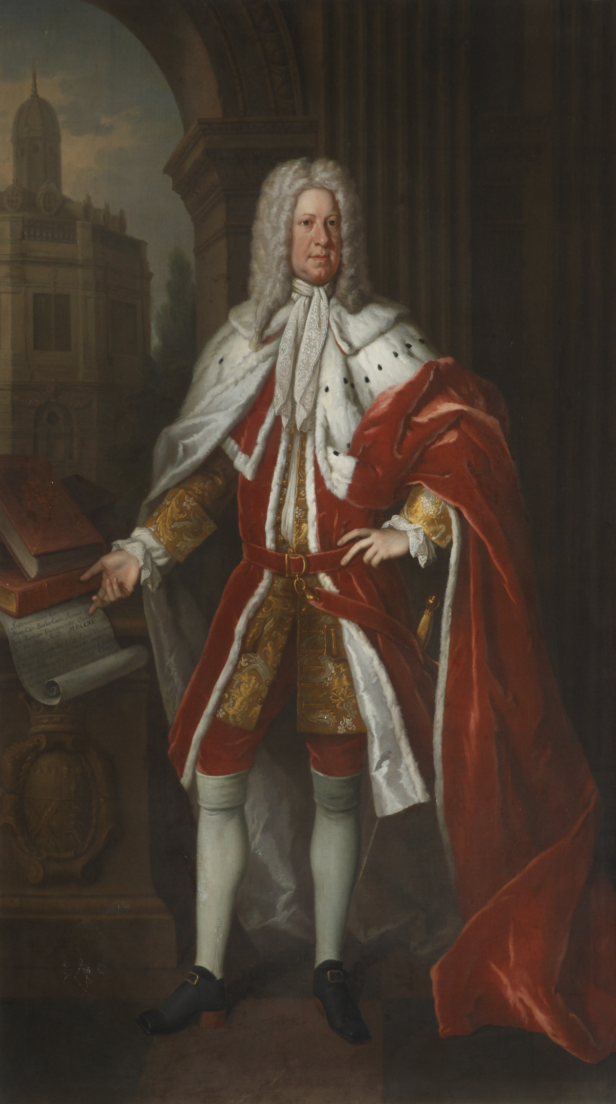 Portrait of Charles Butler, 1st Earl of Arran (1671-1758)